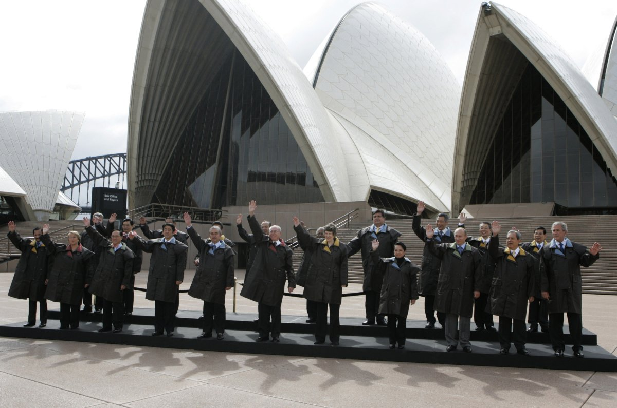 SYDNEY. Before the beginning of the Asia Pacific Economic Cooperation (APEC) forum. APEC leaders in traditional Australian Driza-bone oilskin coats.